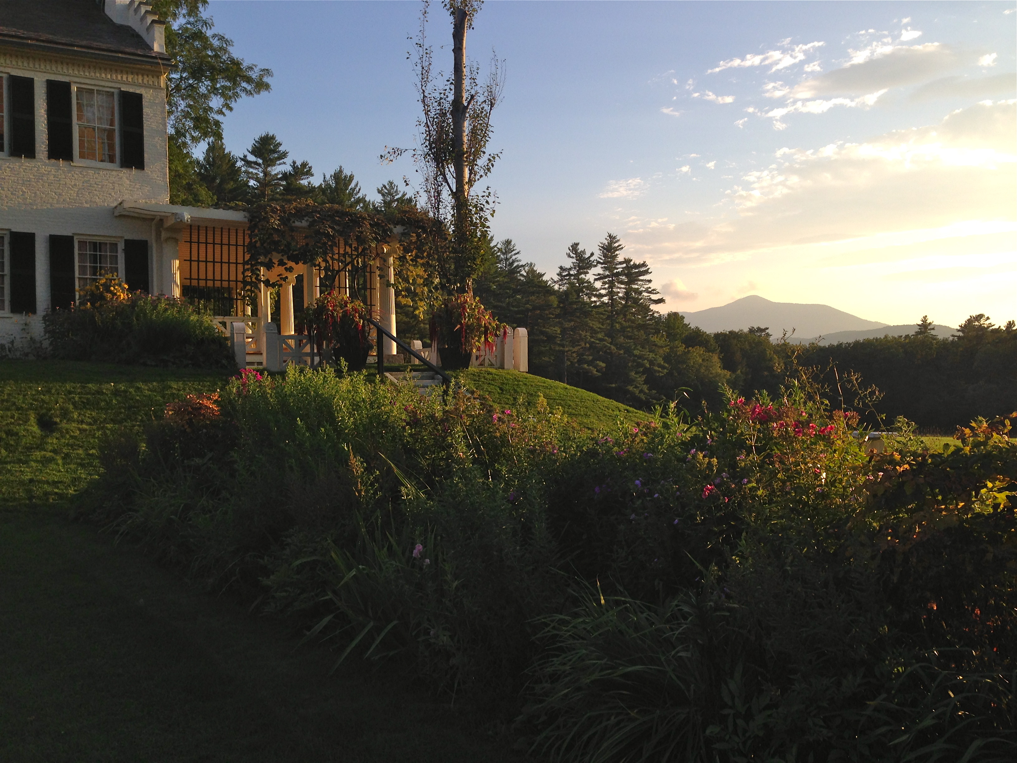 Looking at Aspet and Mt. Ascutney, Saint-Gaudens National Historic Site, Cornish, NH